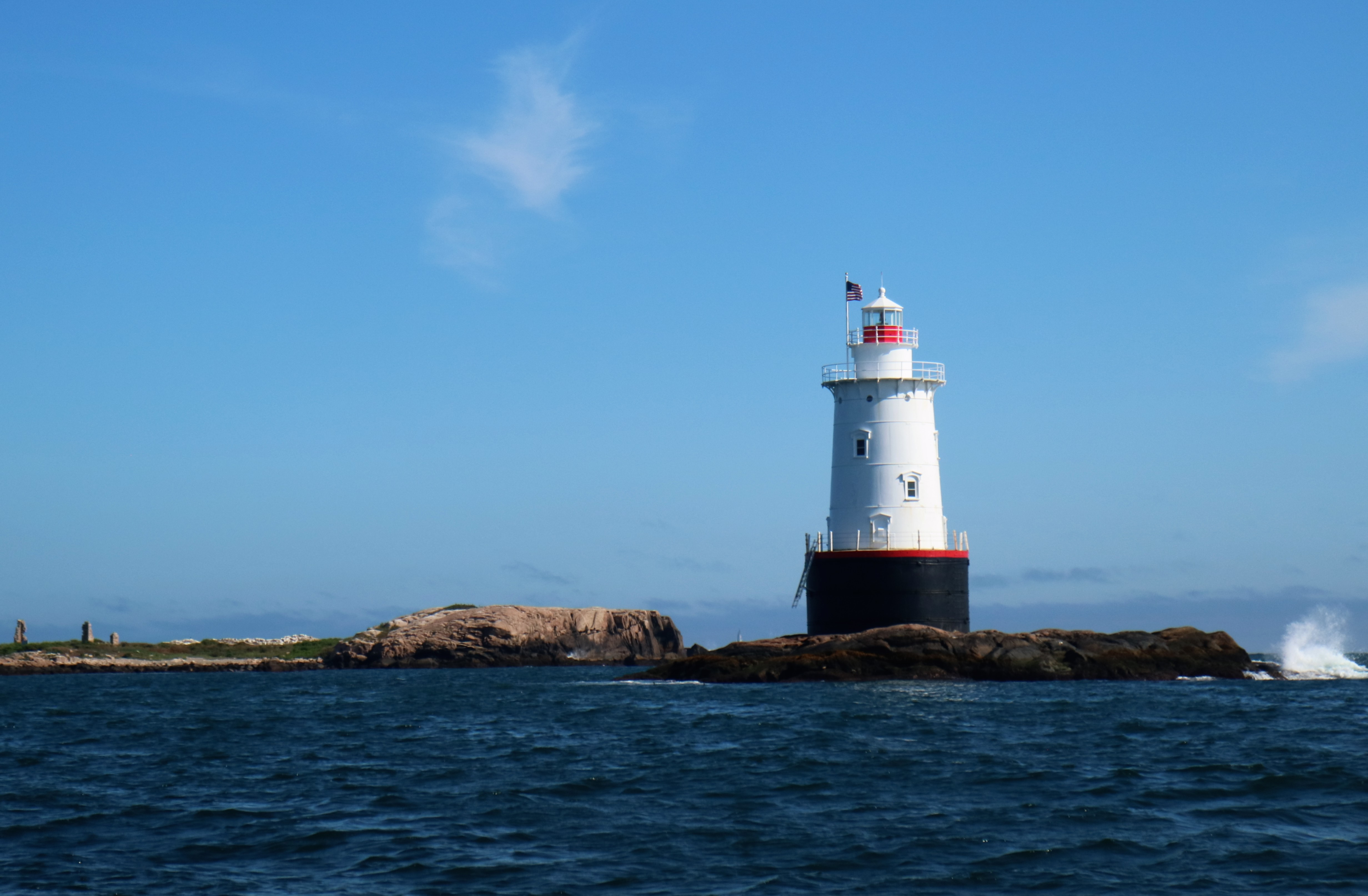 Sakonnet Lighthouse after the 2010 renovation